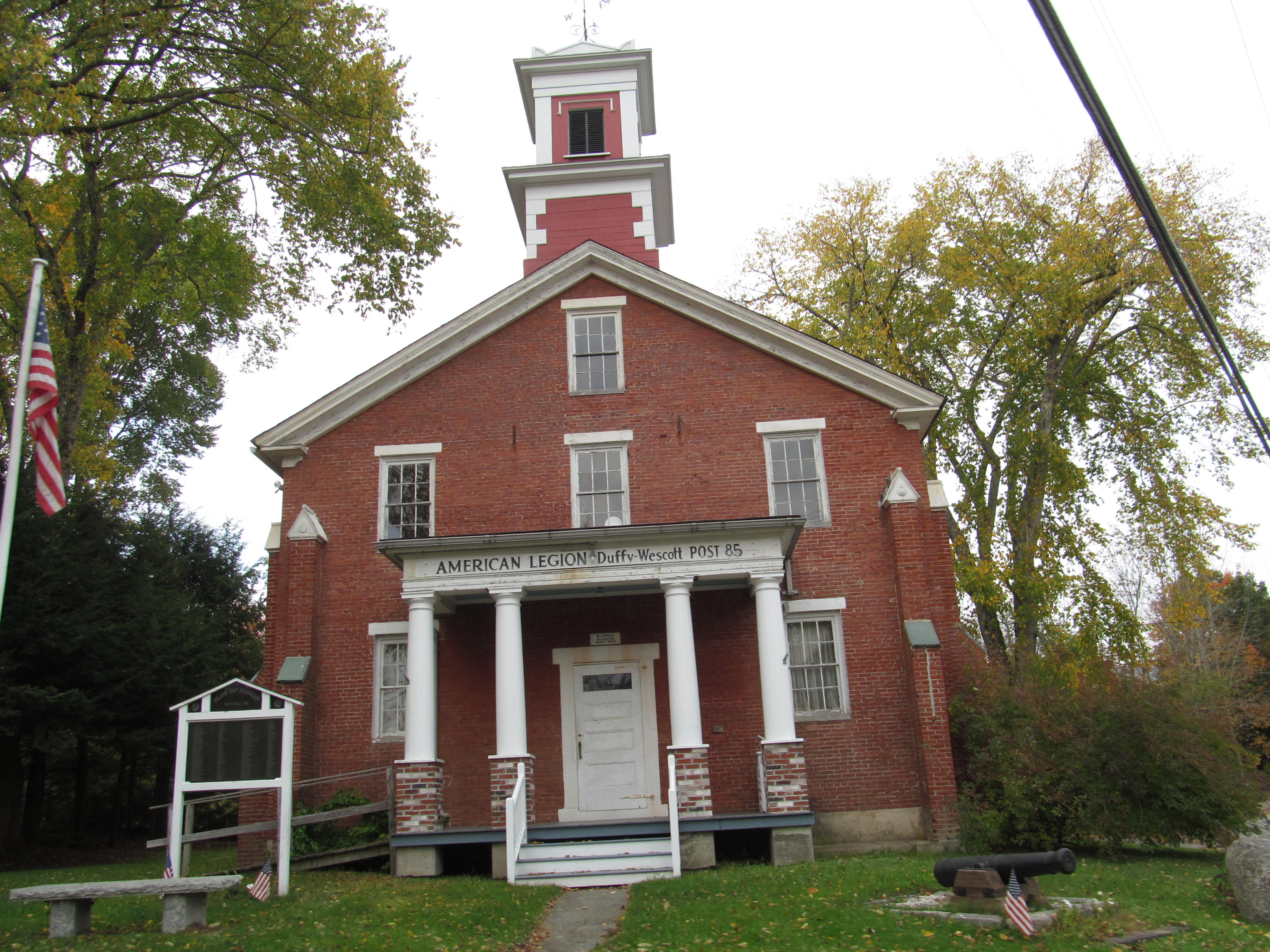 The former Academy building in Blue Hill, Maine. Part of the Blue Hill Historic District.